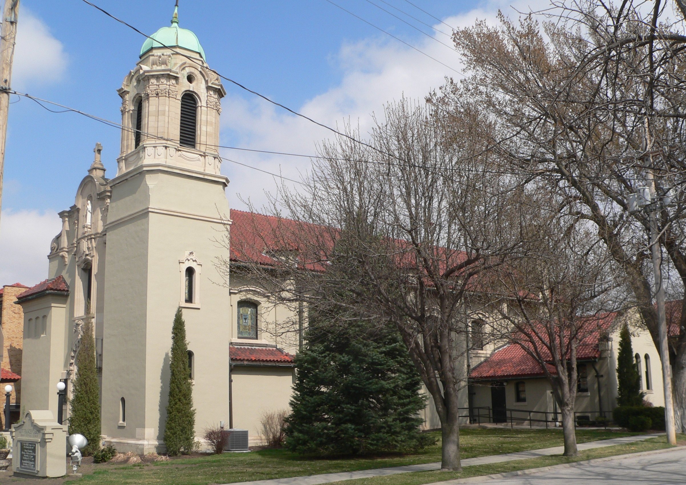 St. Frances Cabrini Church, located at 1335 S. 10th Street in Omaha, Nebraska; seen from the southwest. The church is the former St. Philomena's Cathedral.